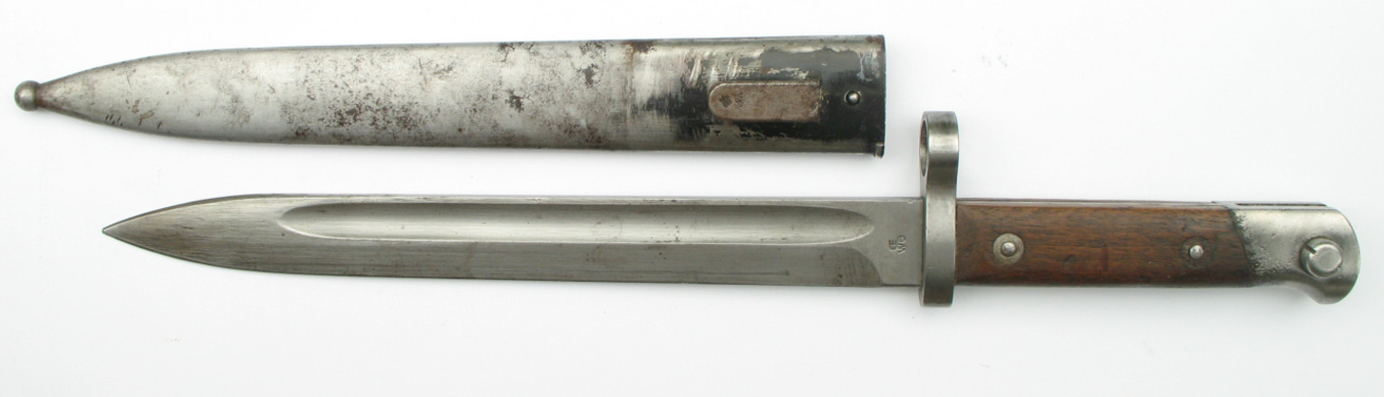 Mannlicher M1890 Bayonet for M1888 and M1890 Mannlicher rifles